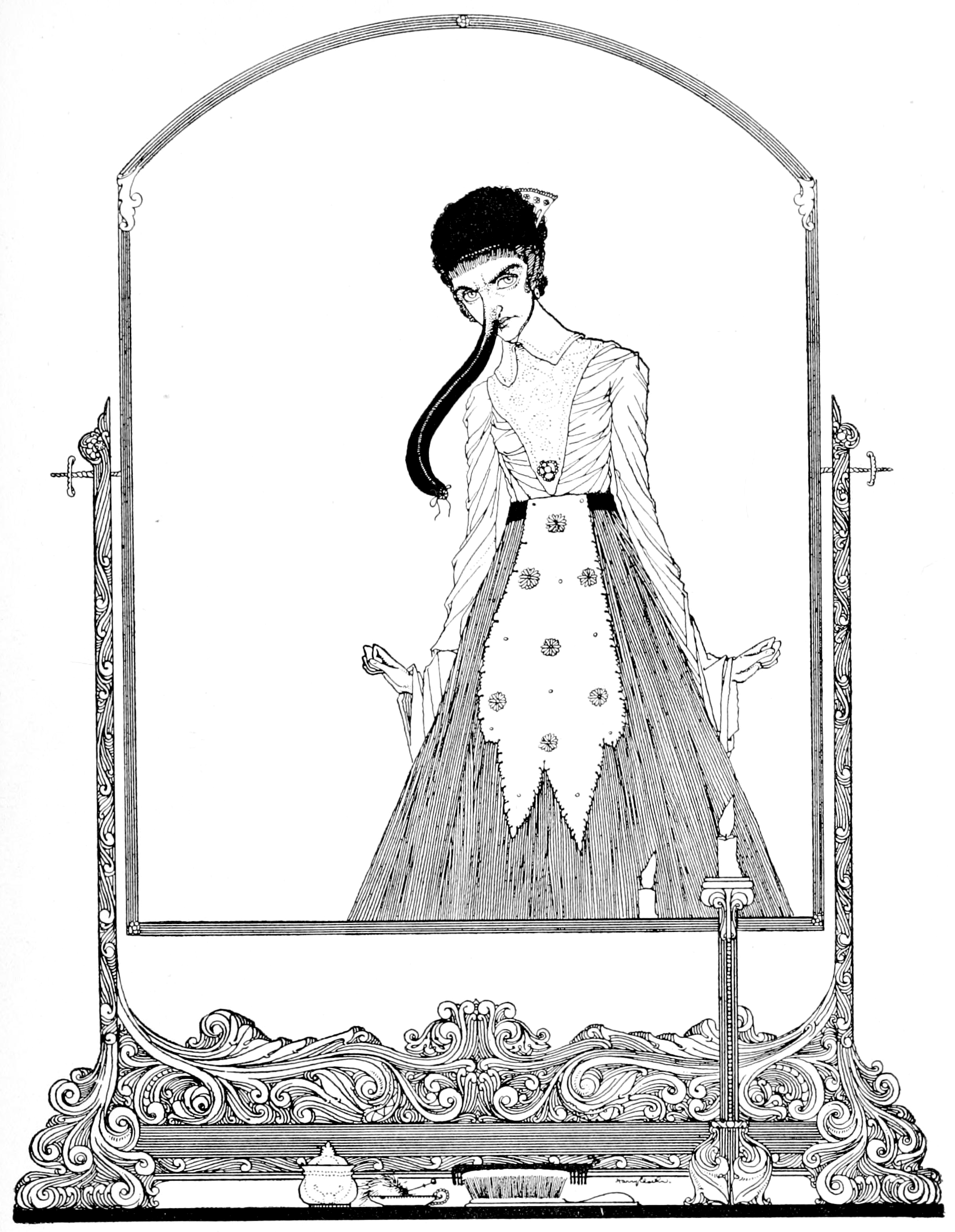 Illustration in The fairy tales of Charles Perrault Perrault, Charles, 1628-1703; Clarke, Harry, 1889-1931, illustrator. London: Harrap (1922)